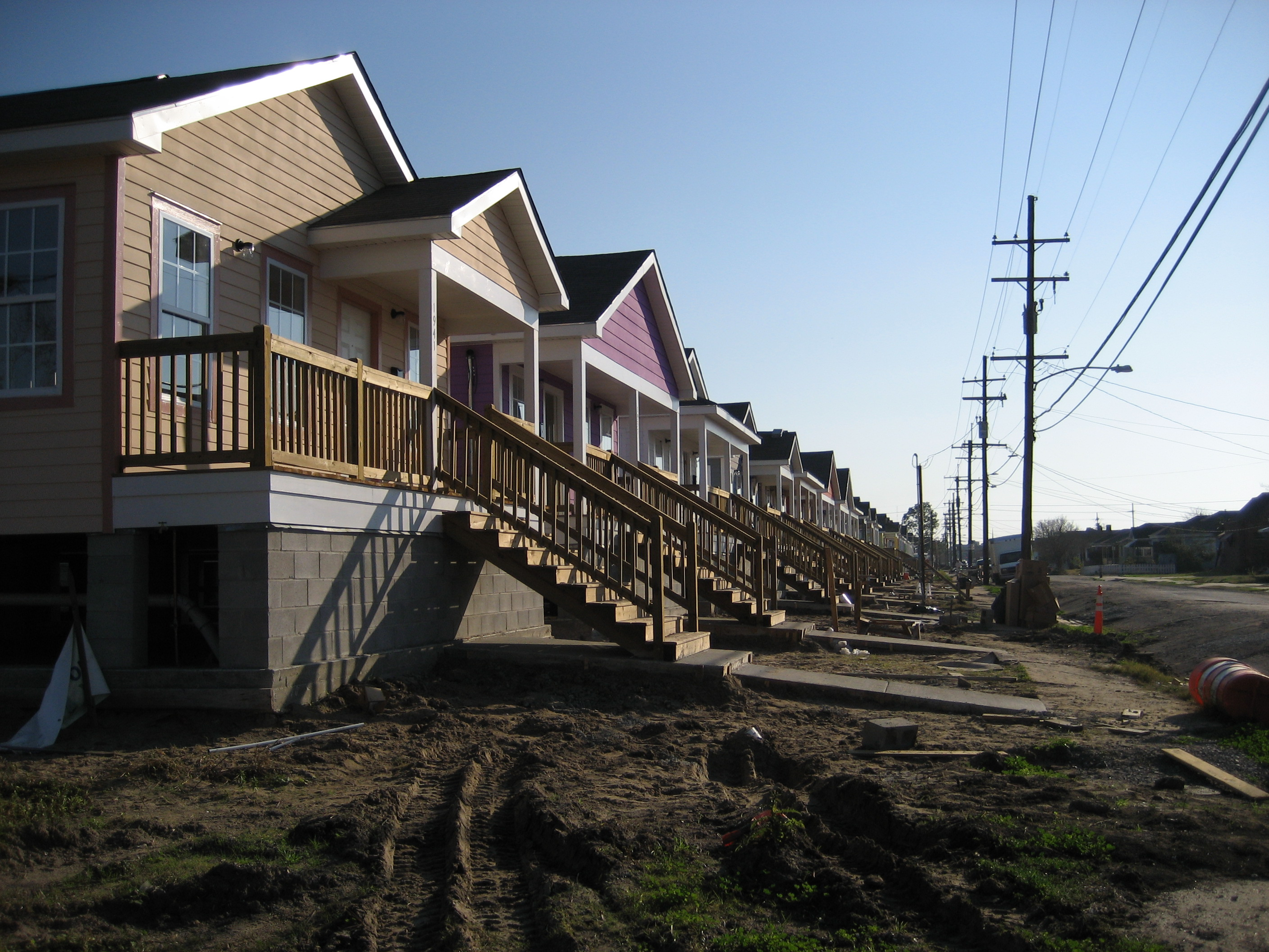 "Musicians' Village" development of post-Hurricane Katrina housing in the Upper 9th Ward of New Orleans (December 2006)